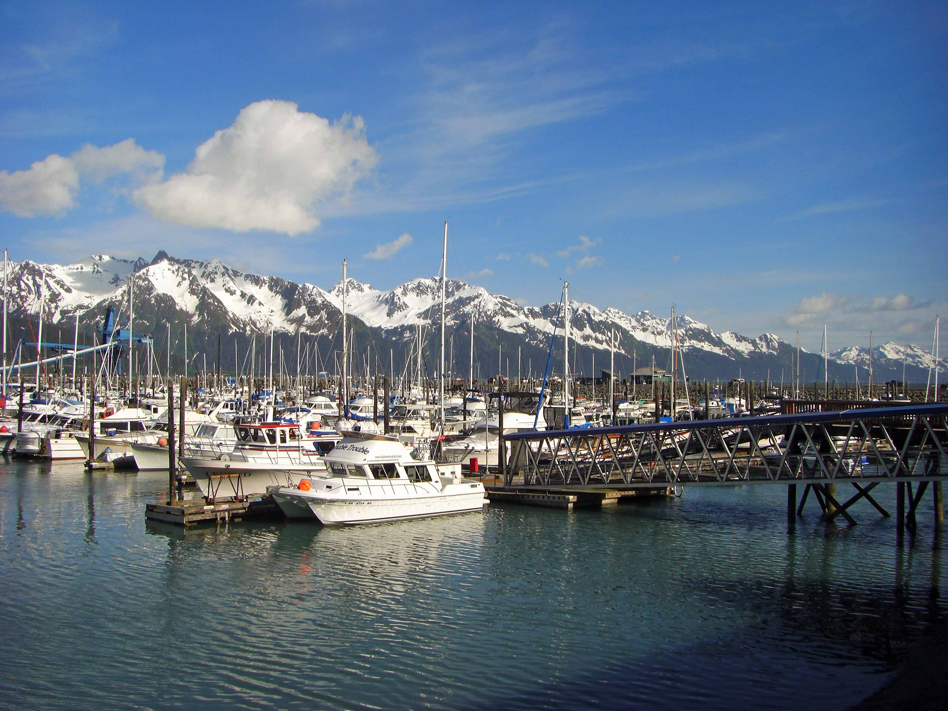 seward harbour